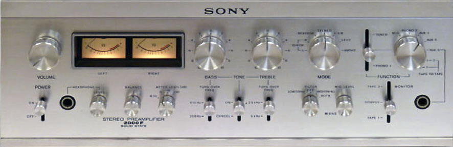 Stereo Preamplifier 2000F by SONY (1971)